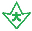 Okuwa Nagano chapter